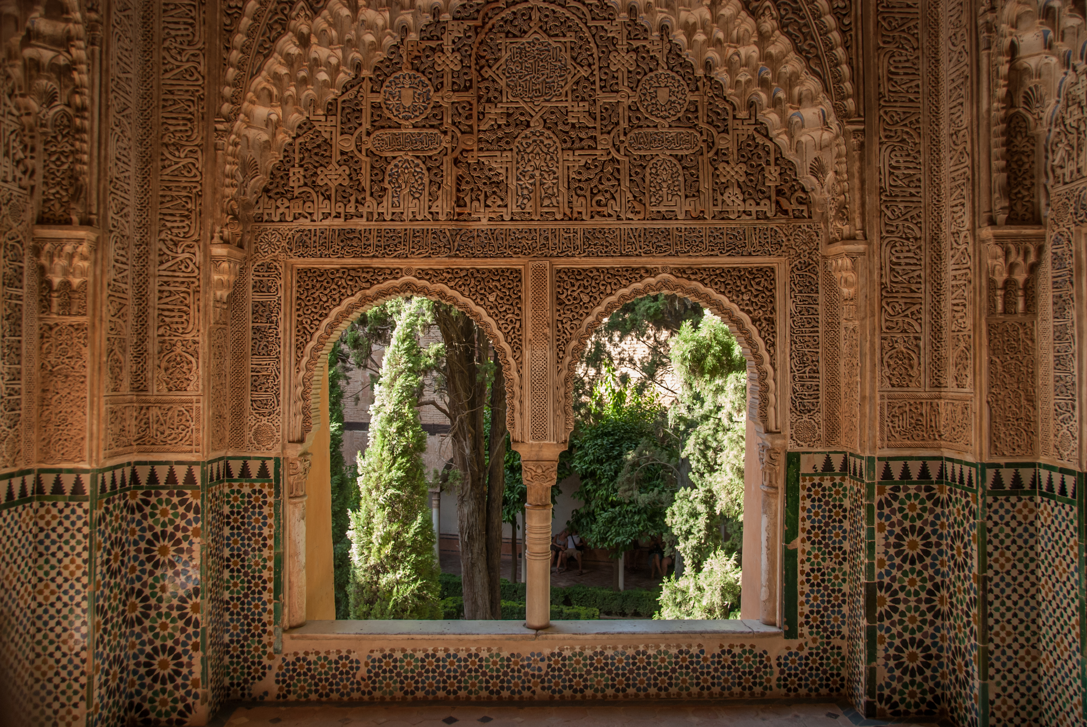 Interior of Alhambra Castle